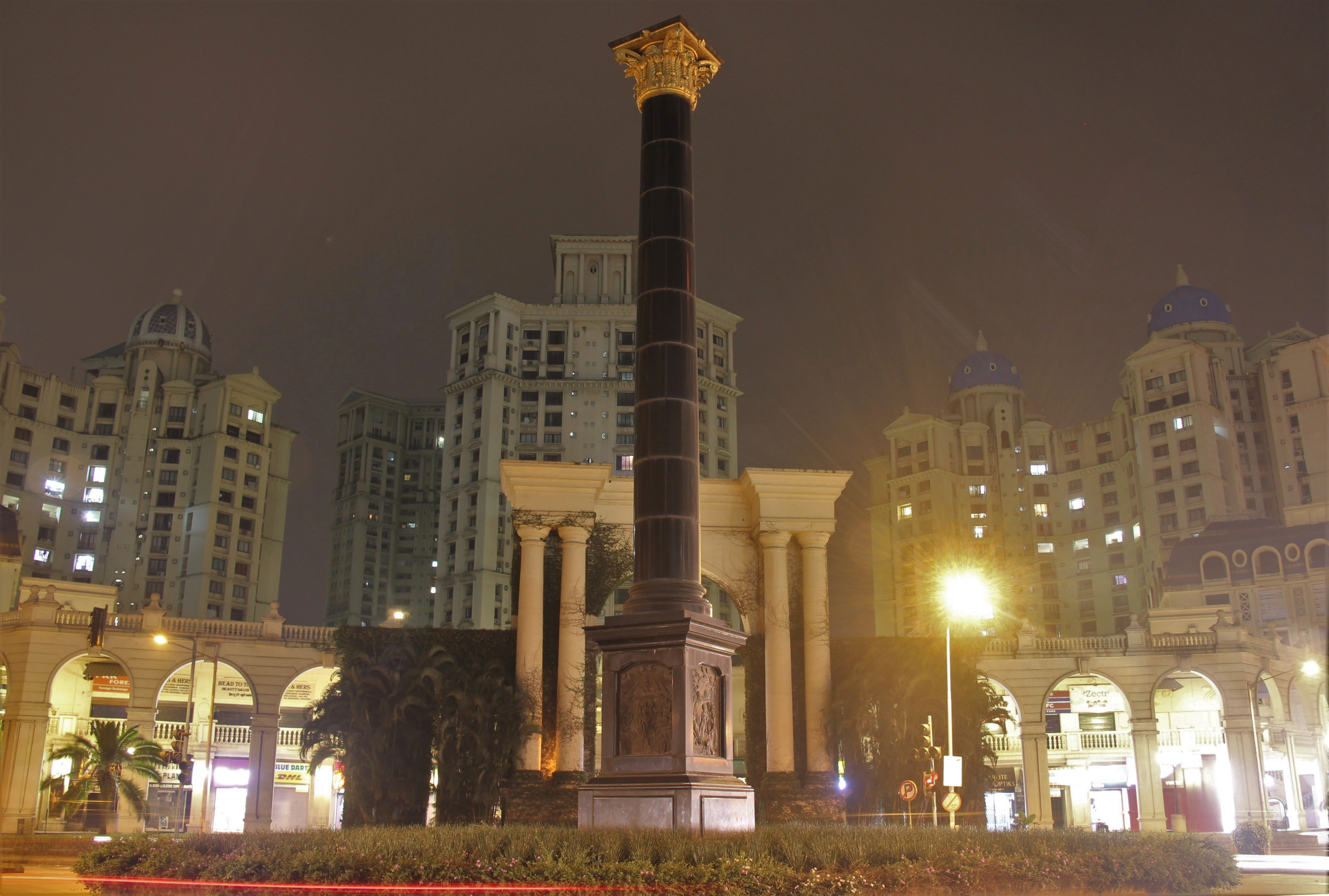 Galleria shopping complex in Hiranandani, Powai